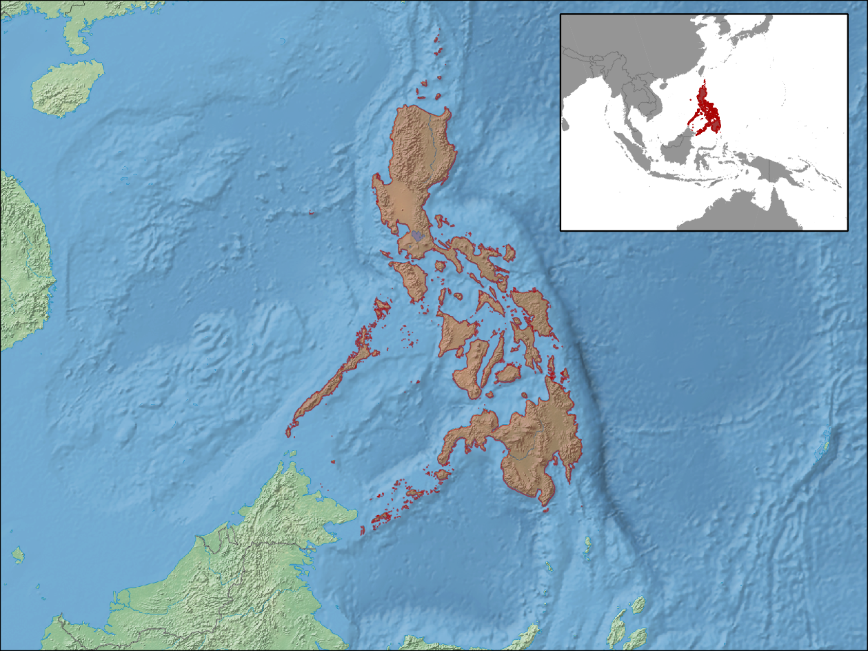 geographic distribution of Brachymeles elerae